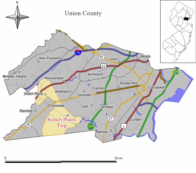 Source: Jim Irwin Original work by Jim Irwin, December 2005.